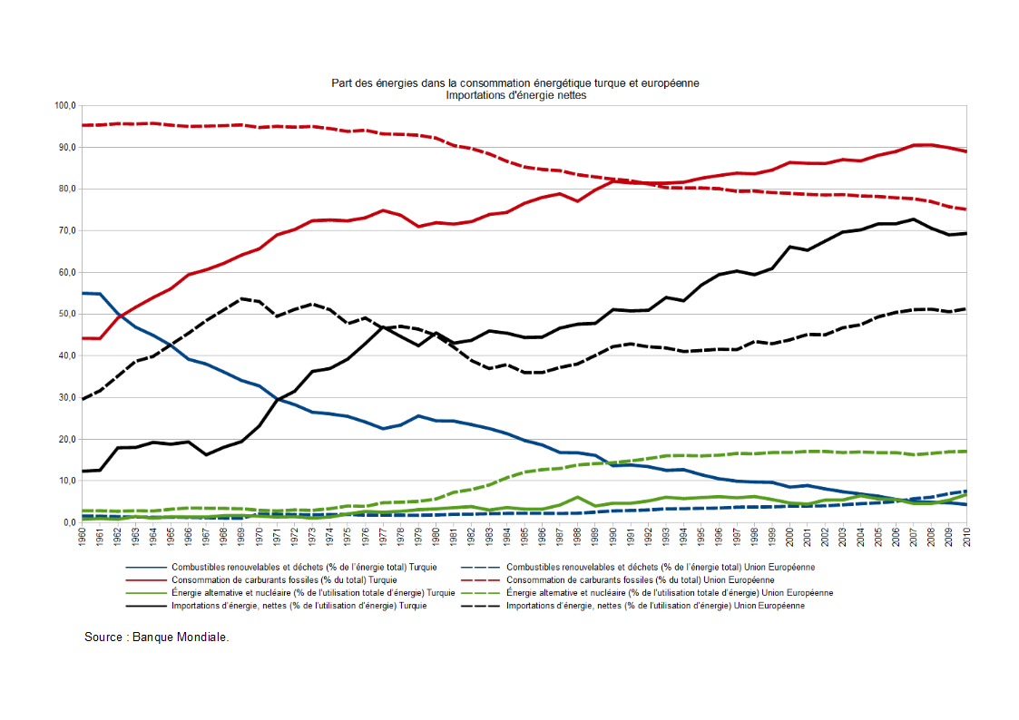 Part des énergies dans la consommation énergétique turque et européenne - Source: Banque Mondiale